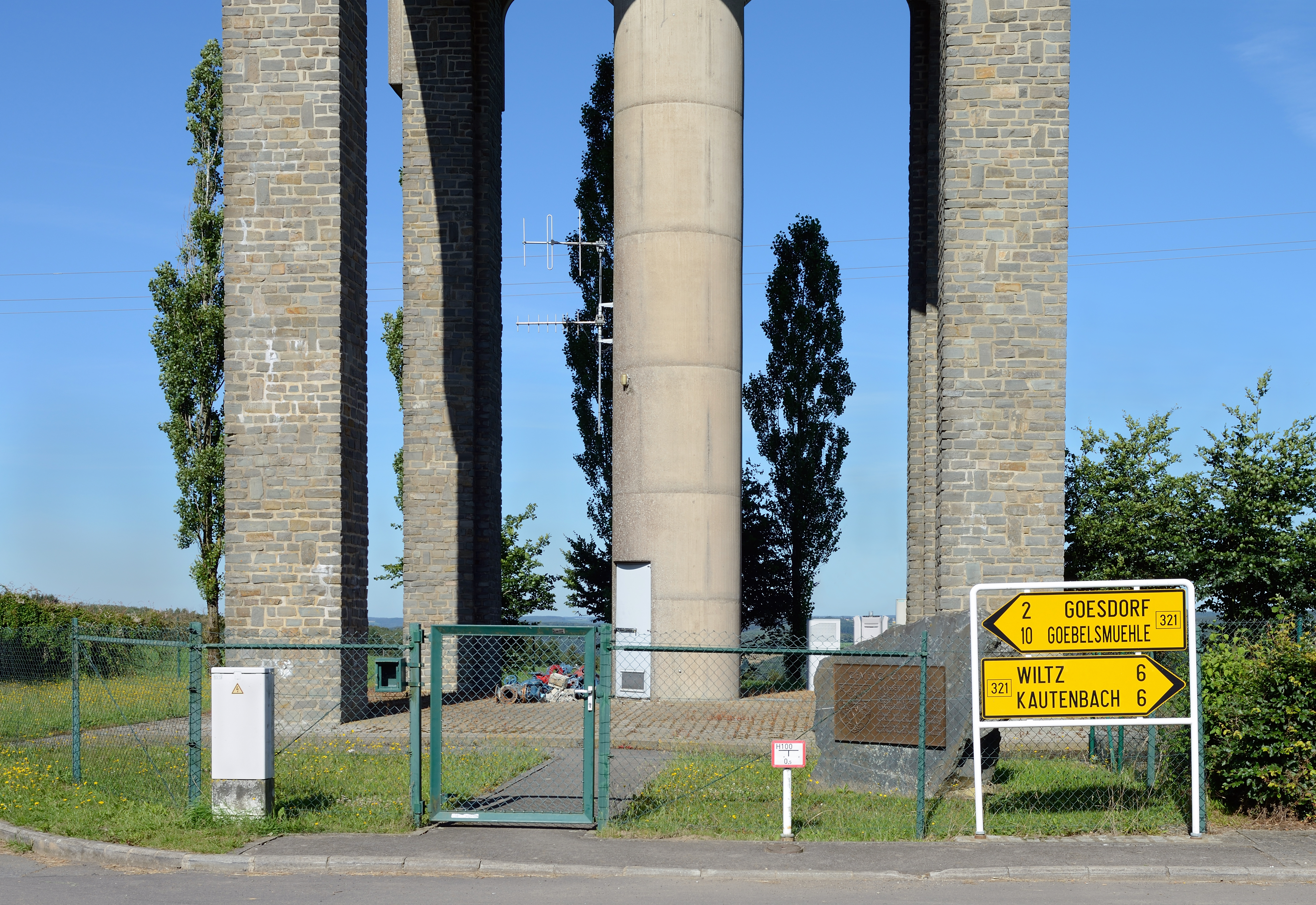 Base of the water tower at Dahl, Luxembourg